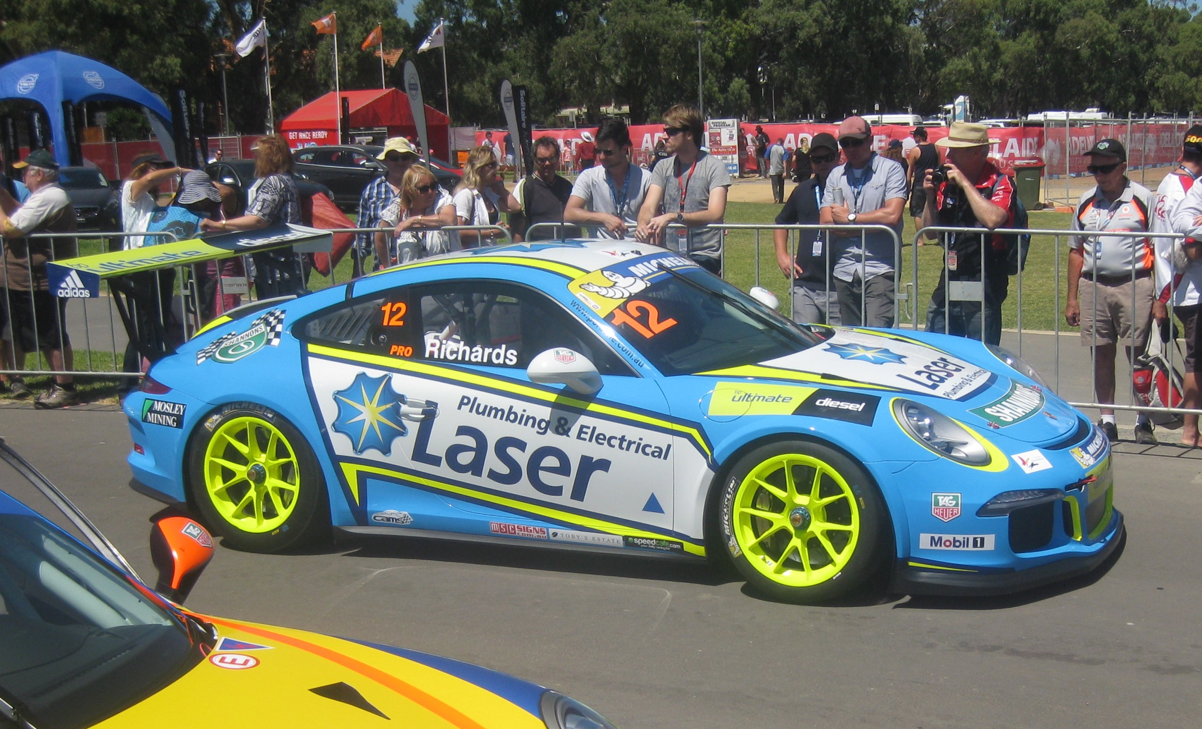 Porsche 911 GT3 Cup Type 991 of Steven Richards. Round 1, 2014 Australian Carrera Cup Championship, Adelaide Parklands Circuit.